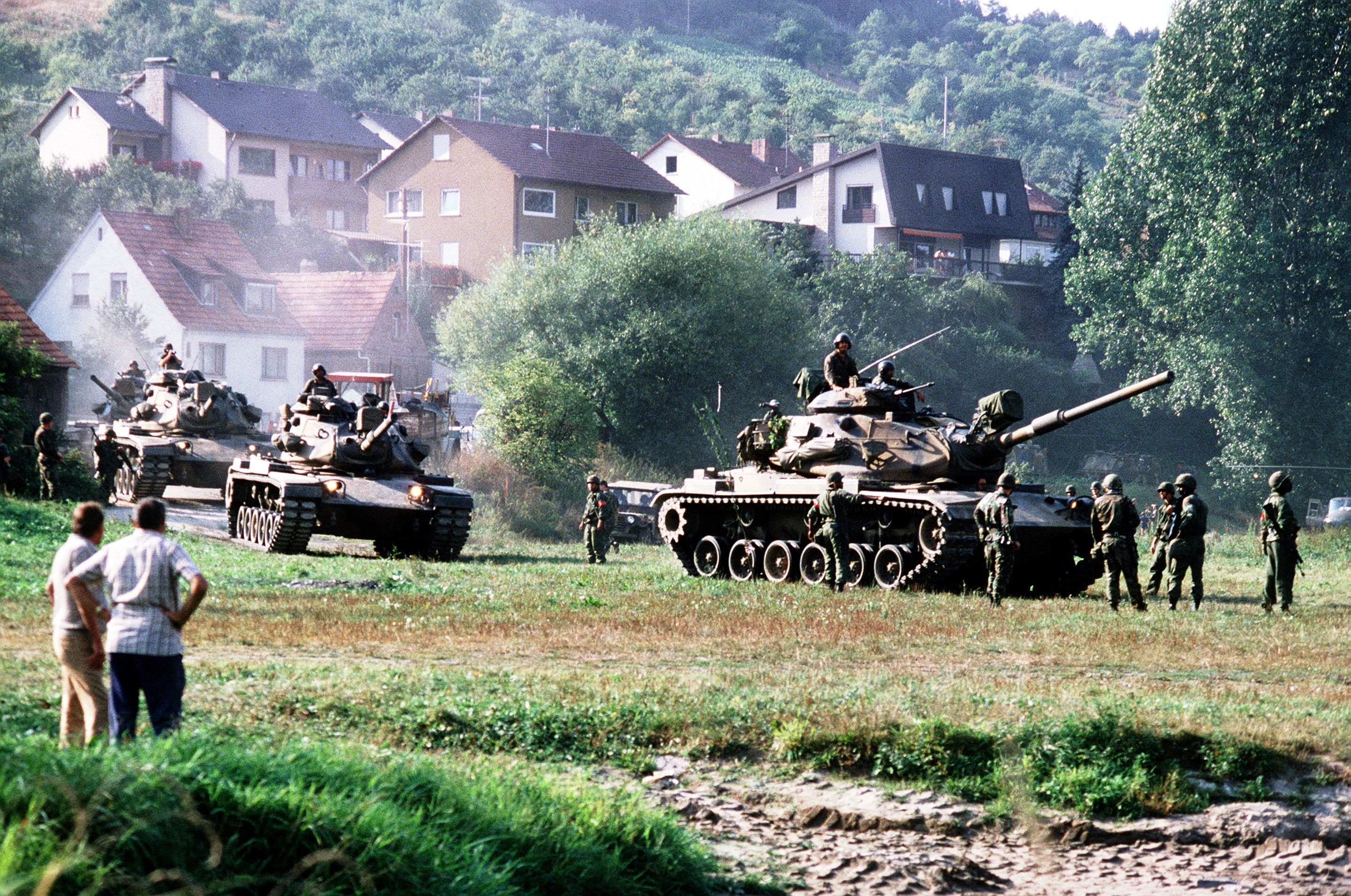 Against a backdrop of a German village, U.S. Army tanks maneuver for a river crossing during, REFORGER '82, the multi-national military training exercise.